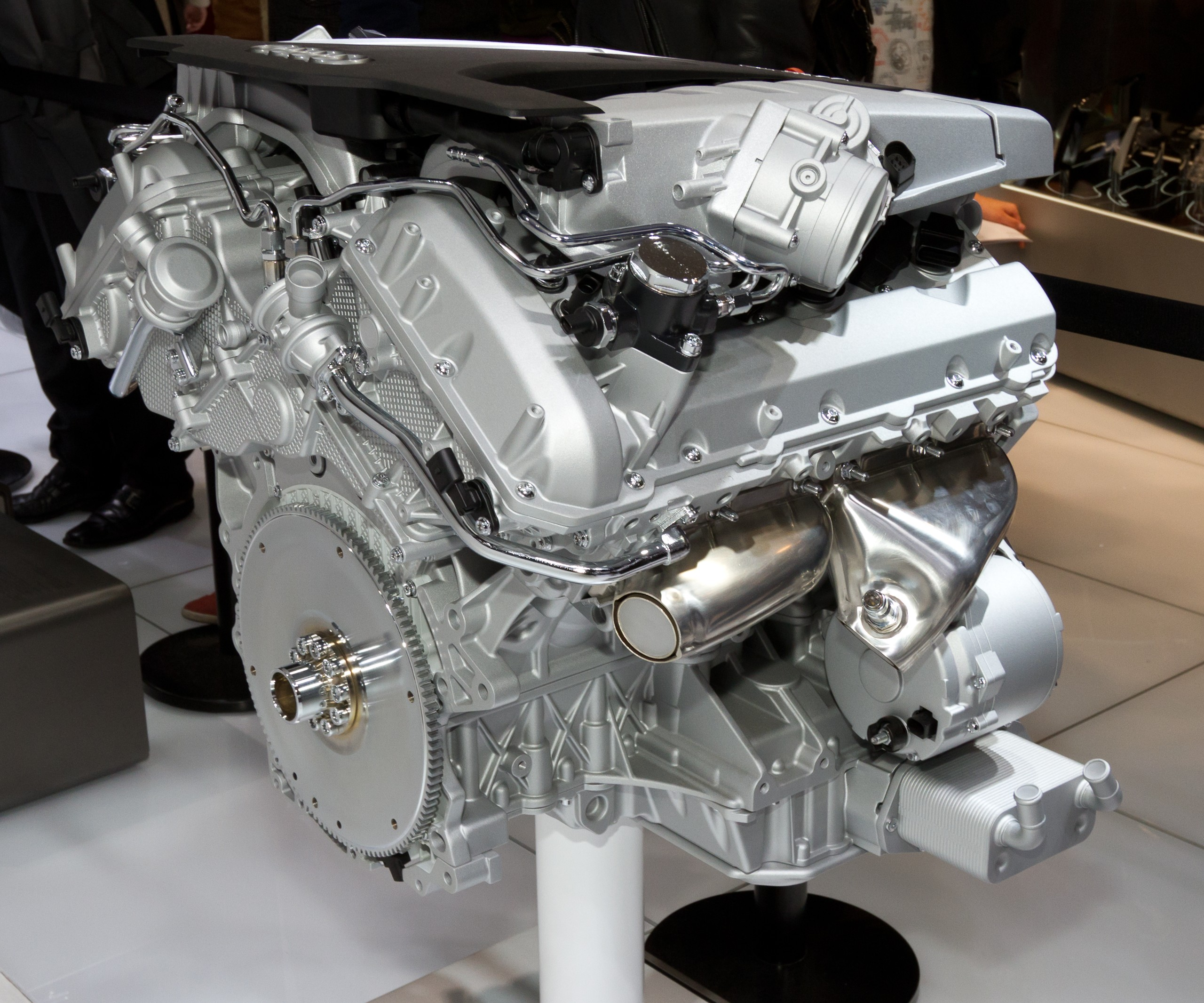 Tokyo Motor Show 2011: Audi W12 6.3 FSI engine.